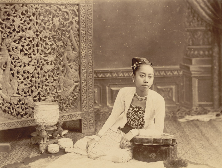 Burmese lady in traditional costume